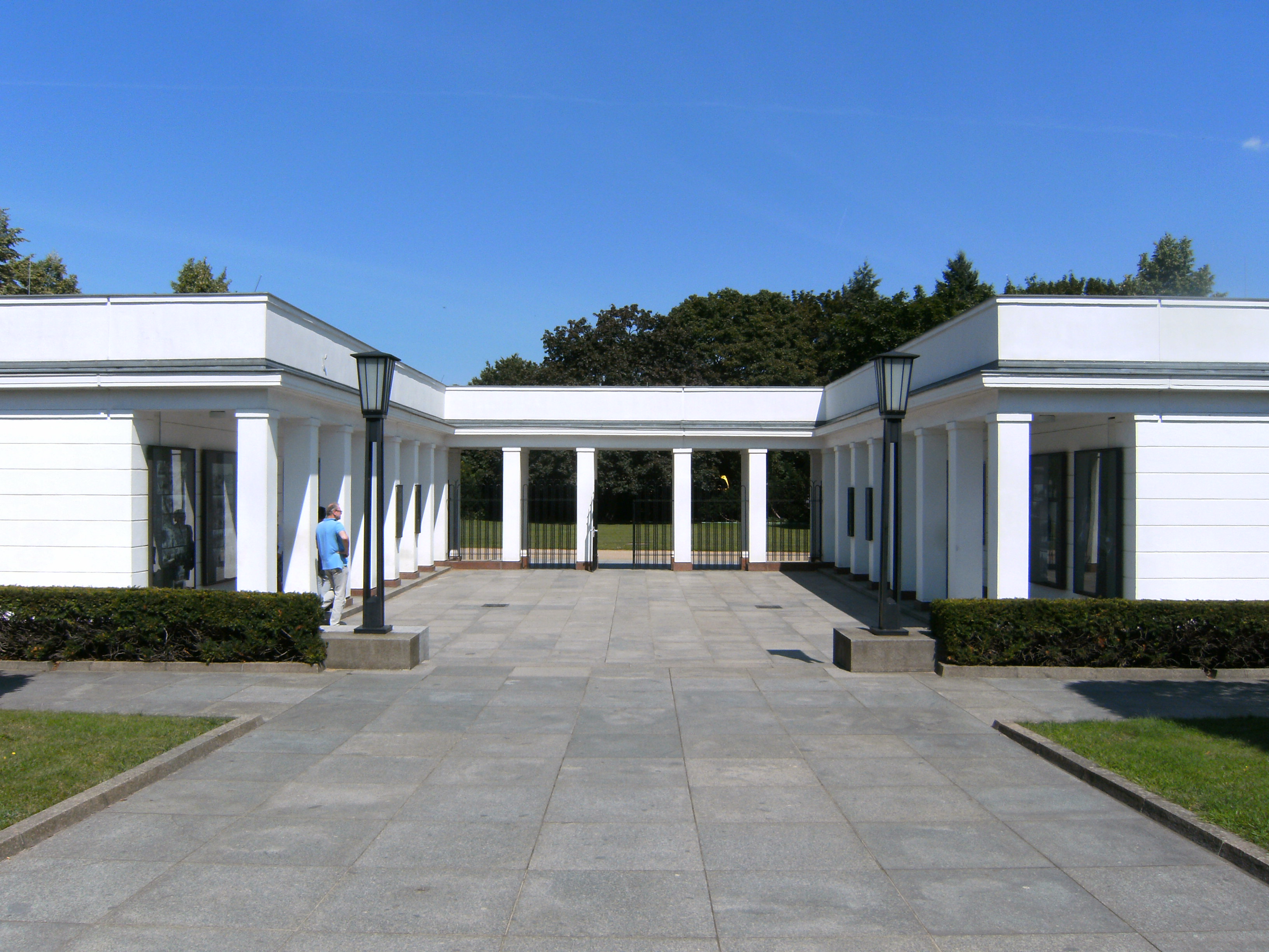 Soviet War Memorial (Tiergarten) in Berlin: Building behind the memorial. Documentation of World War II and entrance to the grass area.